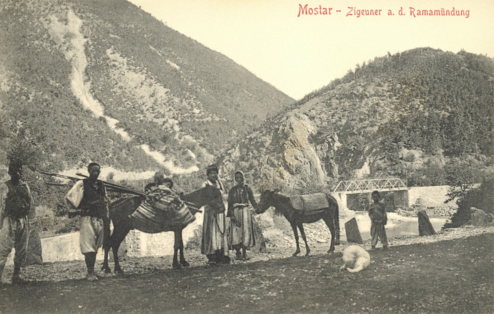 The narrow-gauge railway bridge on the Rama River at its mouth into the Neretva River